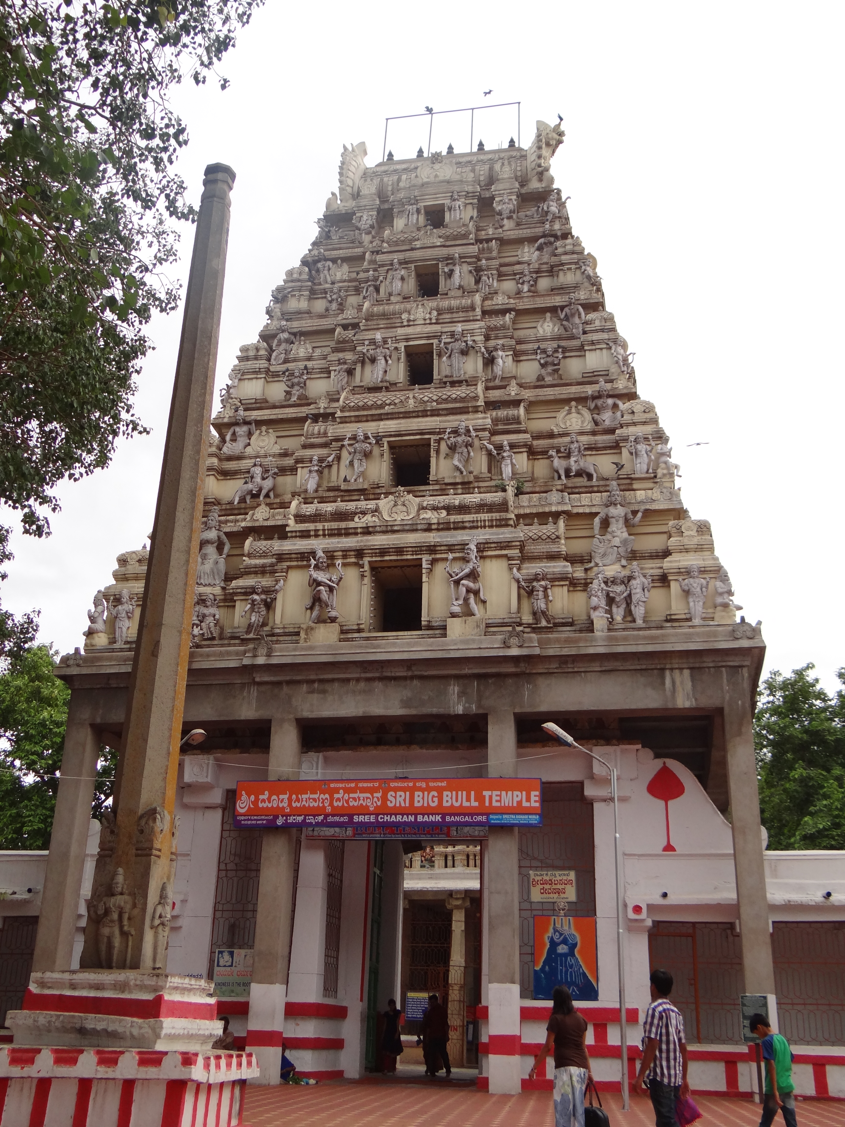 This is the front-outer view of the Bull Temple.